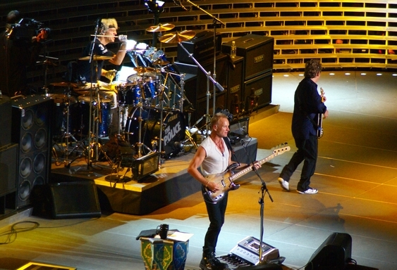 Concert de "The Police" au Madison Square Garden - New York le 1er Aout 2007